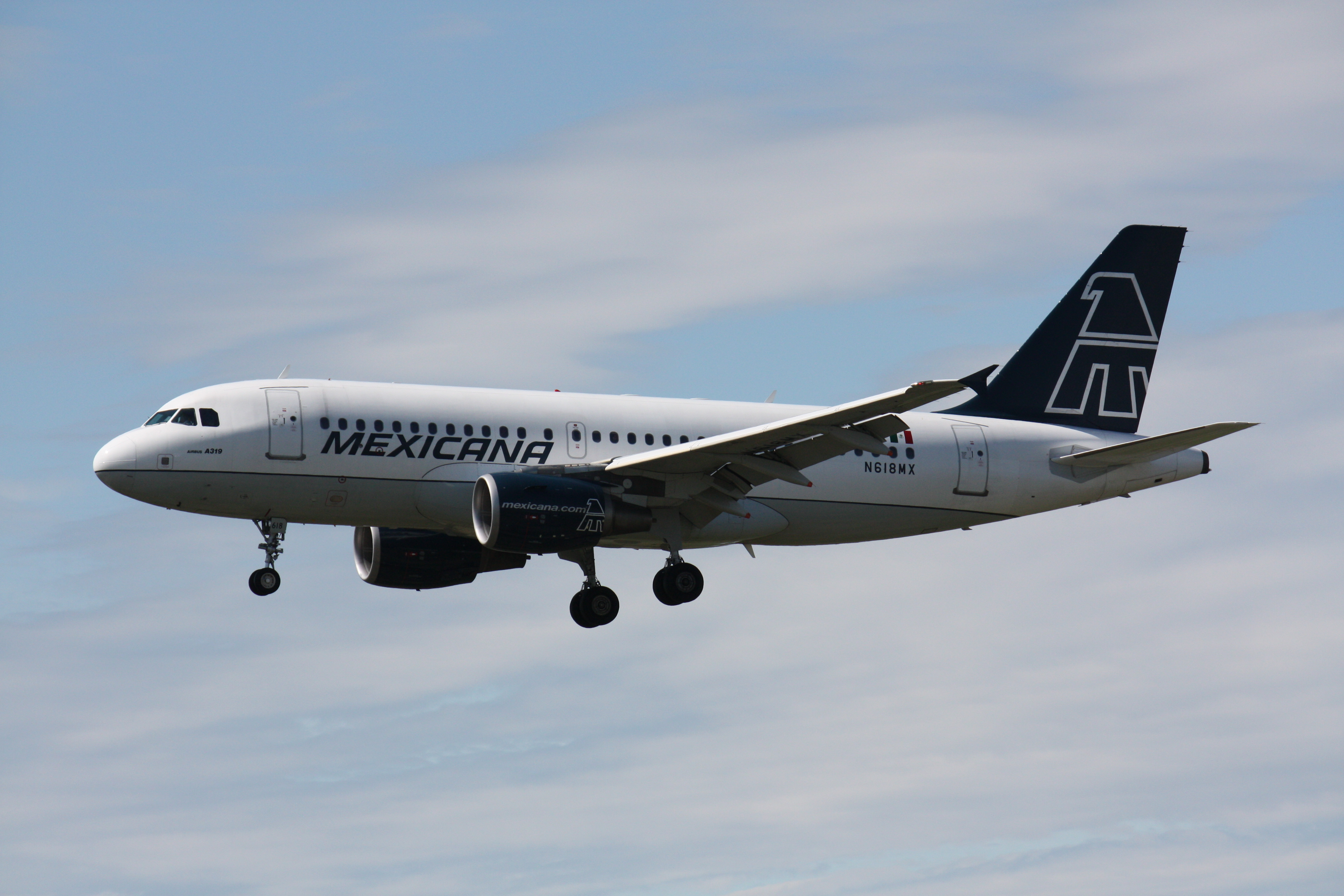 A Mexicana Airbus A319-211 landing at Vancouver International Airport